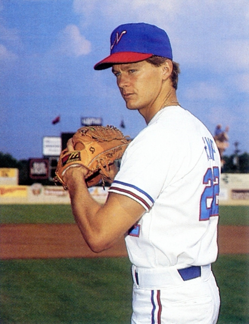 Pitcher Hugh Kemp of the 1987 Nashville Sounds Minor League Baseball team of the American Association